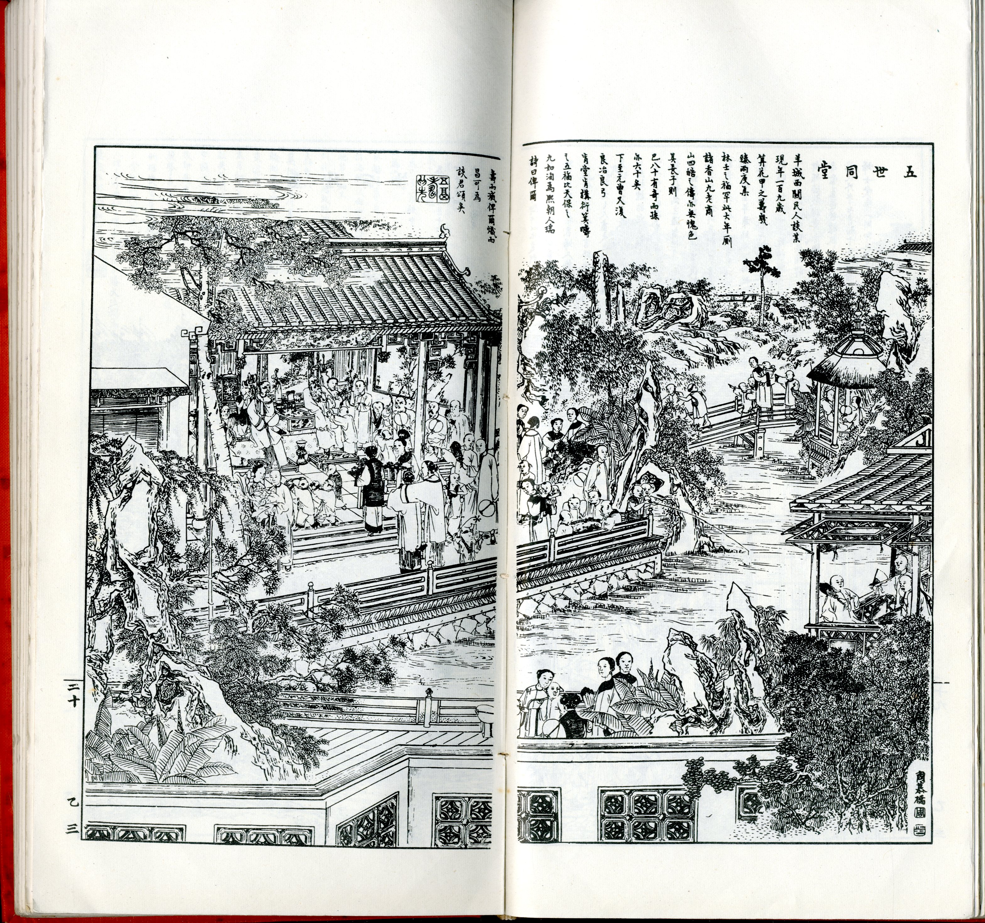 Dianshizhai Pictorial, Yi-3, "Five generations living under the one roof. " ,1884